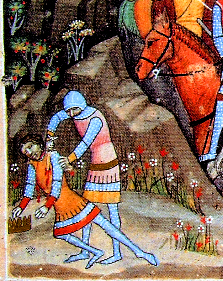 The killing of Samuel Aba (Chronicon Pictum)